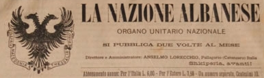 Header of front page of "La Nazione Albanese" newspaper from Anselmo Lorecchio. Person died in 1924. Newspaper